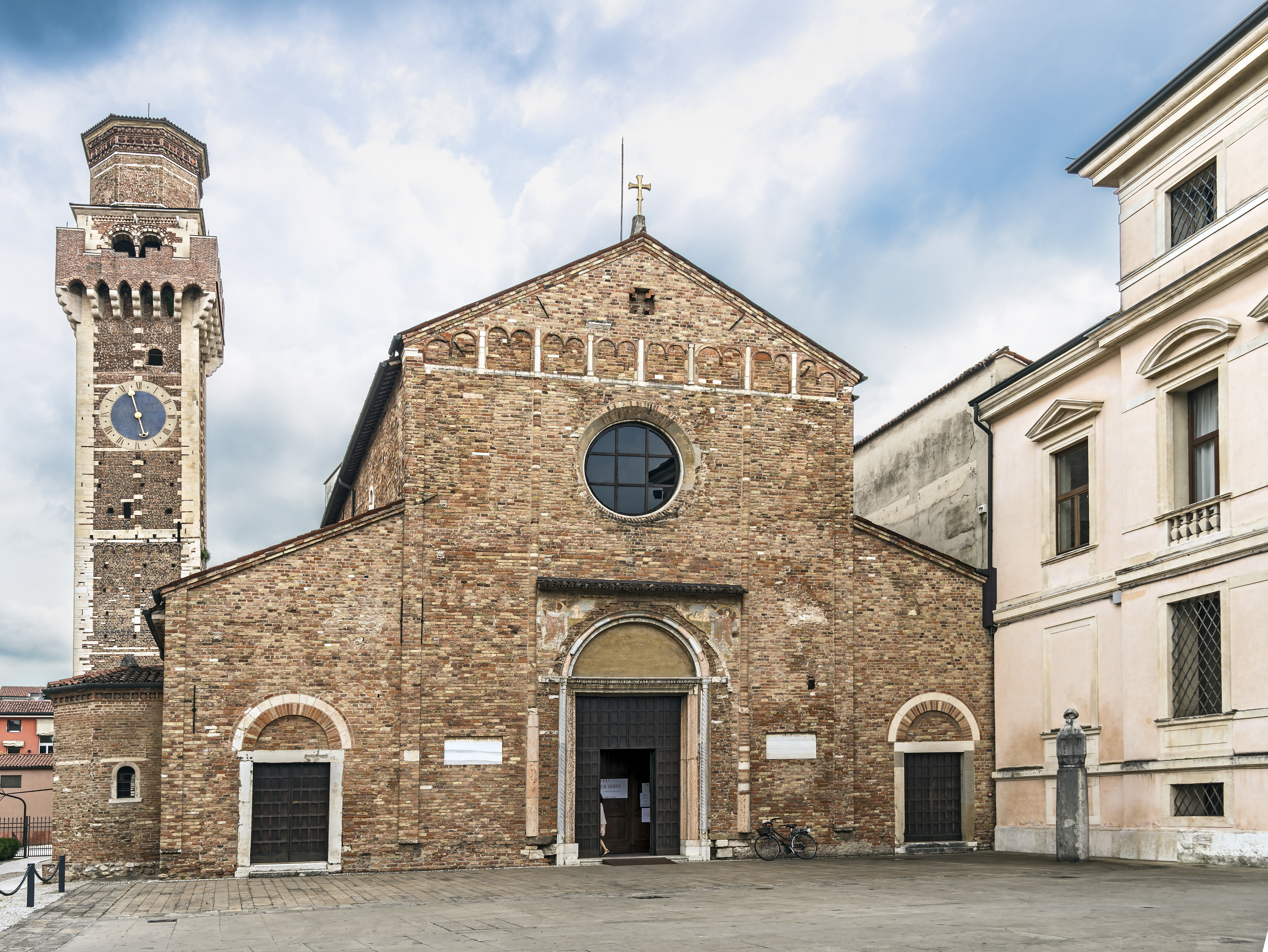 Façade of the basilic Santi Felice e Fortunato